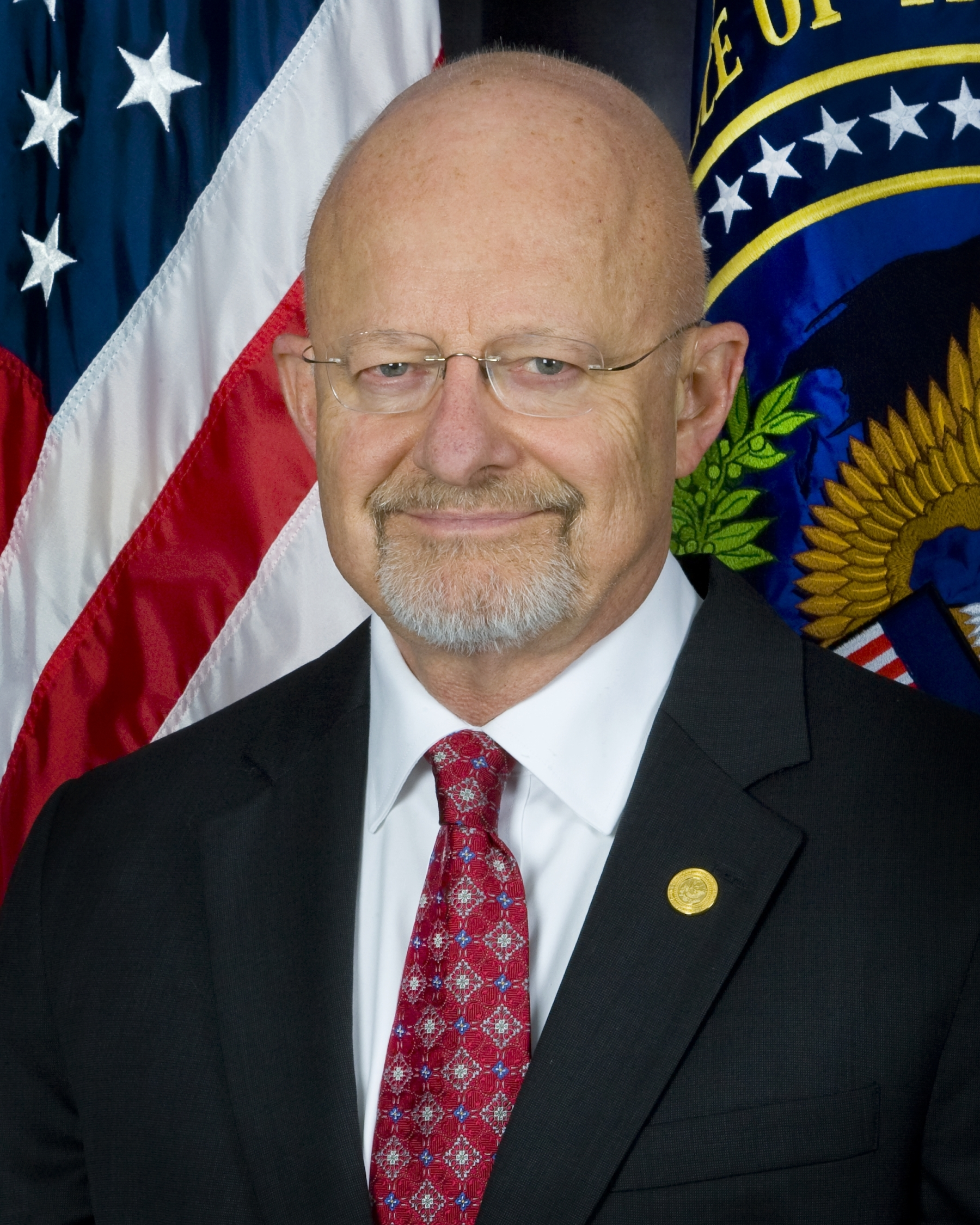 Official portrait of Director of National Intelligence James R. Clapper.